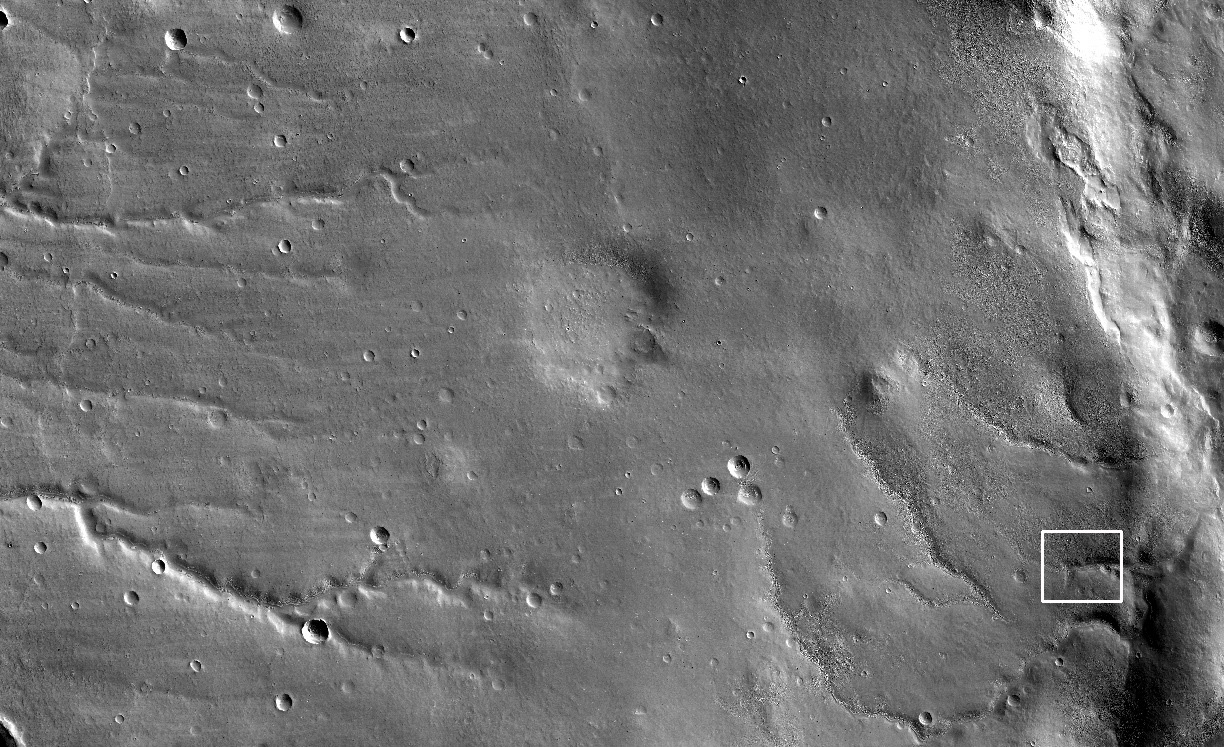 The first Image of the US space probe Mars Reconnaissance Orbiter. March 24, 2006. The area in the field has been published in full resolution, see Image:MRO-First Image-crop.jpg The image has been taken from a distance of about 2500 km.